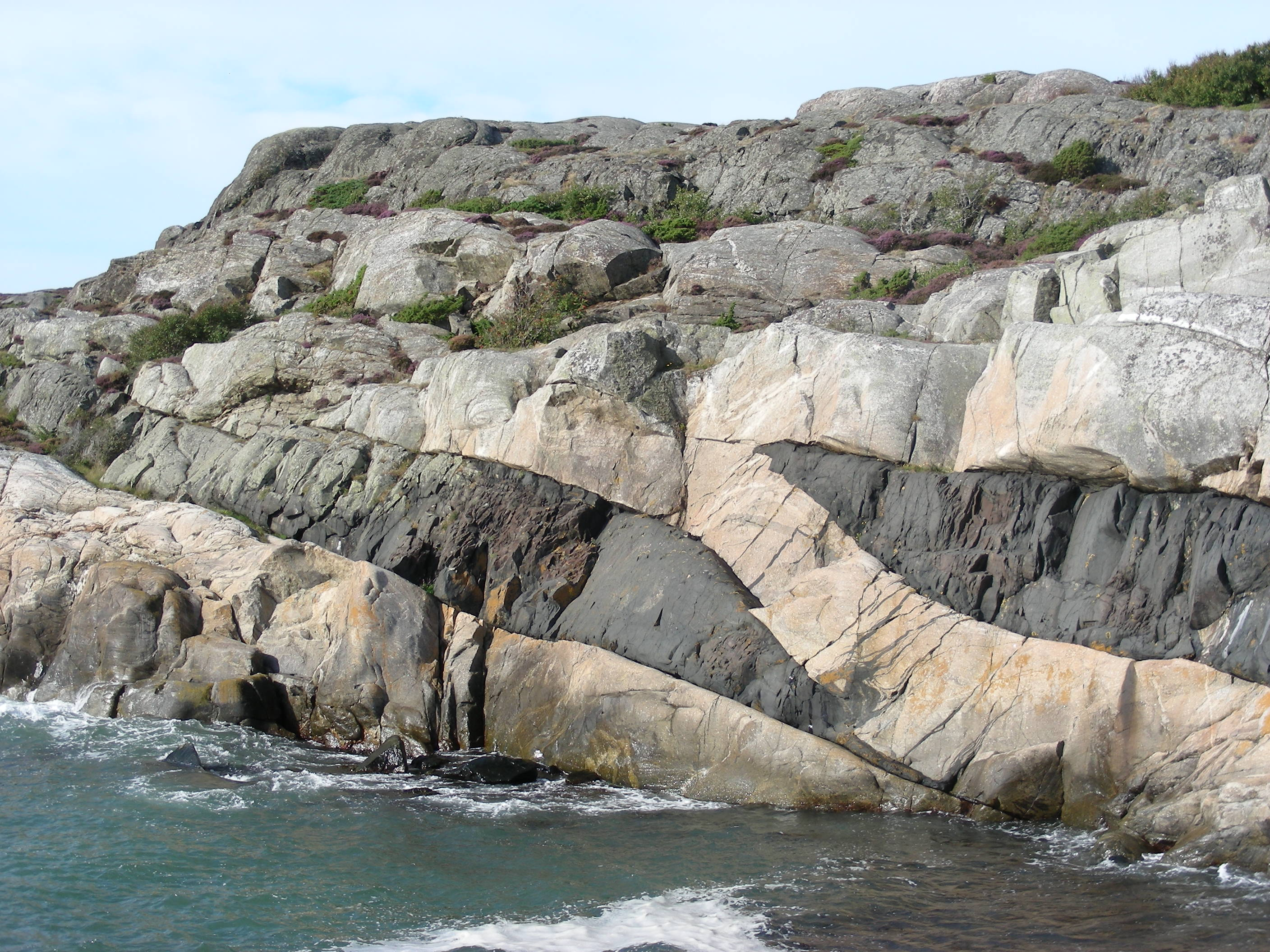 Apophyses (branches) of dark-coloured dolerite dykes in Kosterhavet National Park on Ramsö island in the Koster Islands in Sweden. The dykes intruded between the Gothian orogeny (1.64 to 1.52 Ga) and the Sveconorwegian orogeny (1,2 to 0.9 Ga) at about 1.44 Ga.